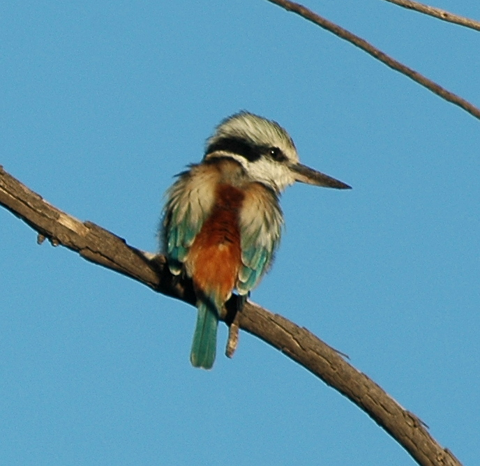 Red-backed Kingfisher (Todiramphus pyrrhopygia) Bowra Station, SW Queensland, Australia